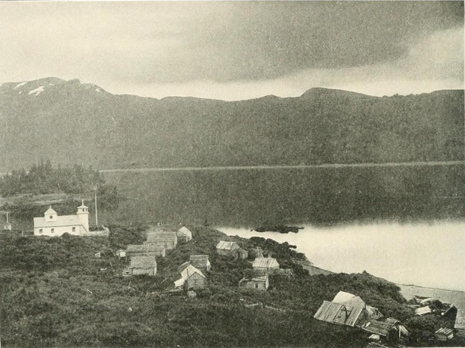 Seldovia Alaska before 1910